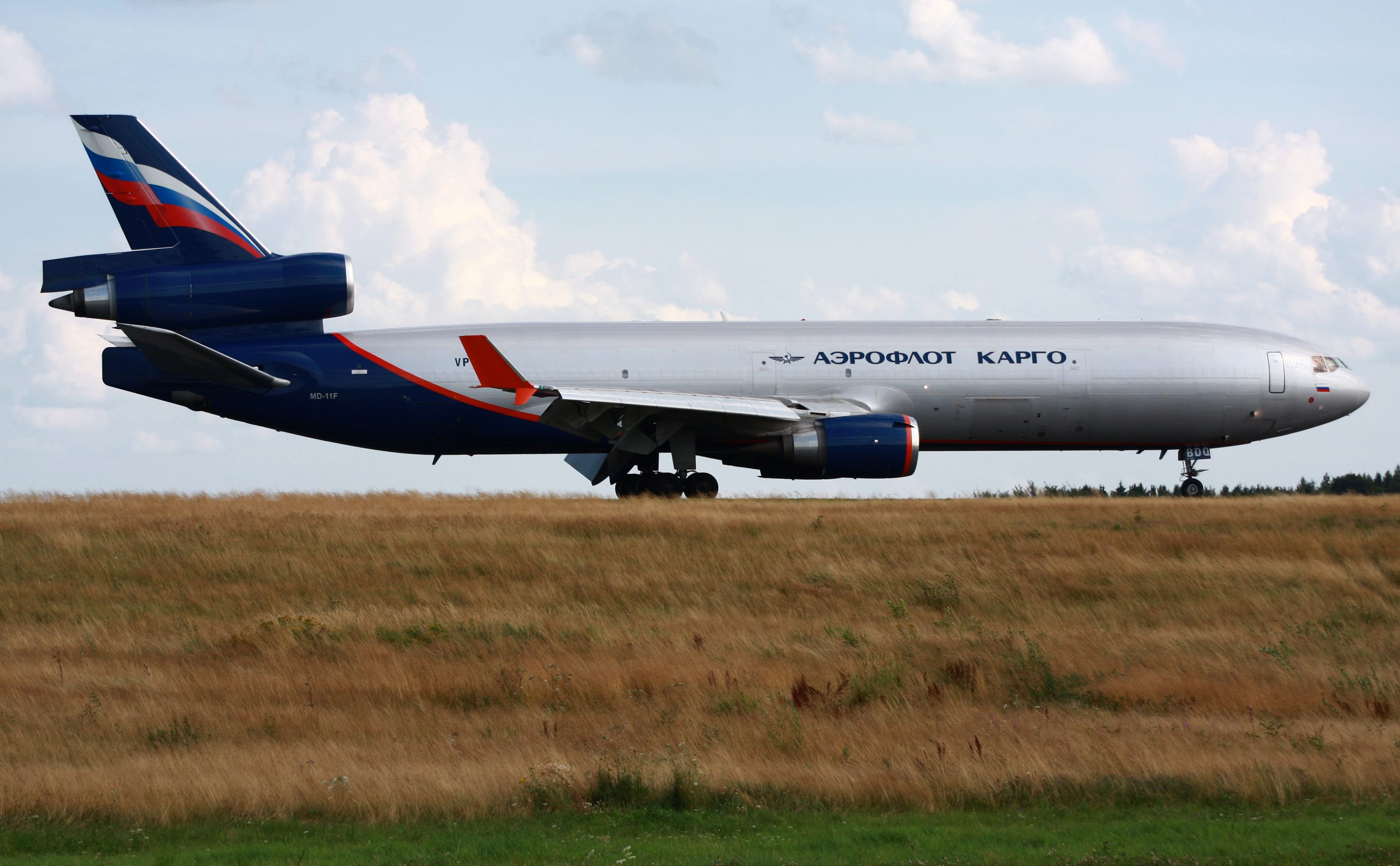 MD-11F (VP-BDQ) landing in Hahn